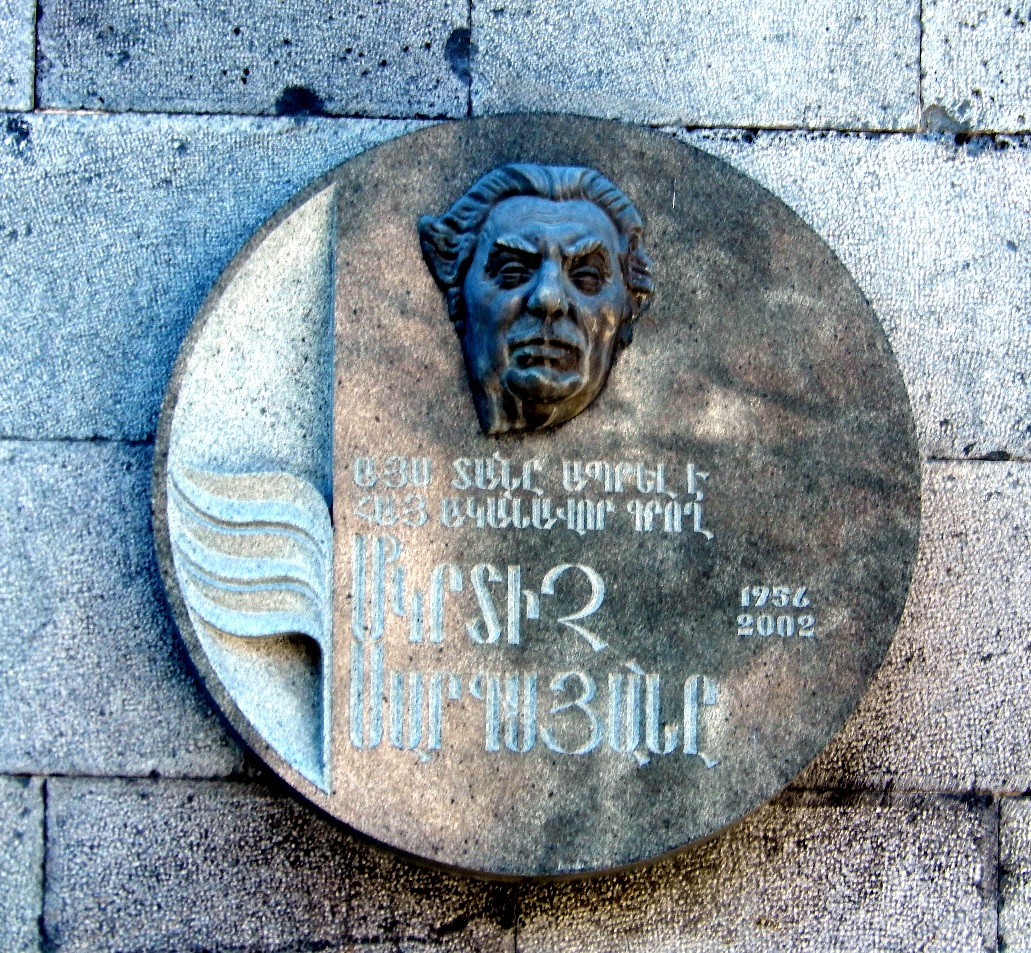 Mkrtich Sargsyan's plaque in Yerevan